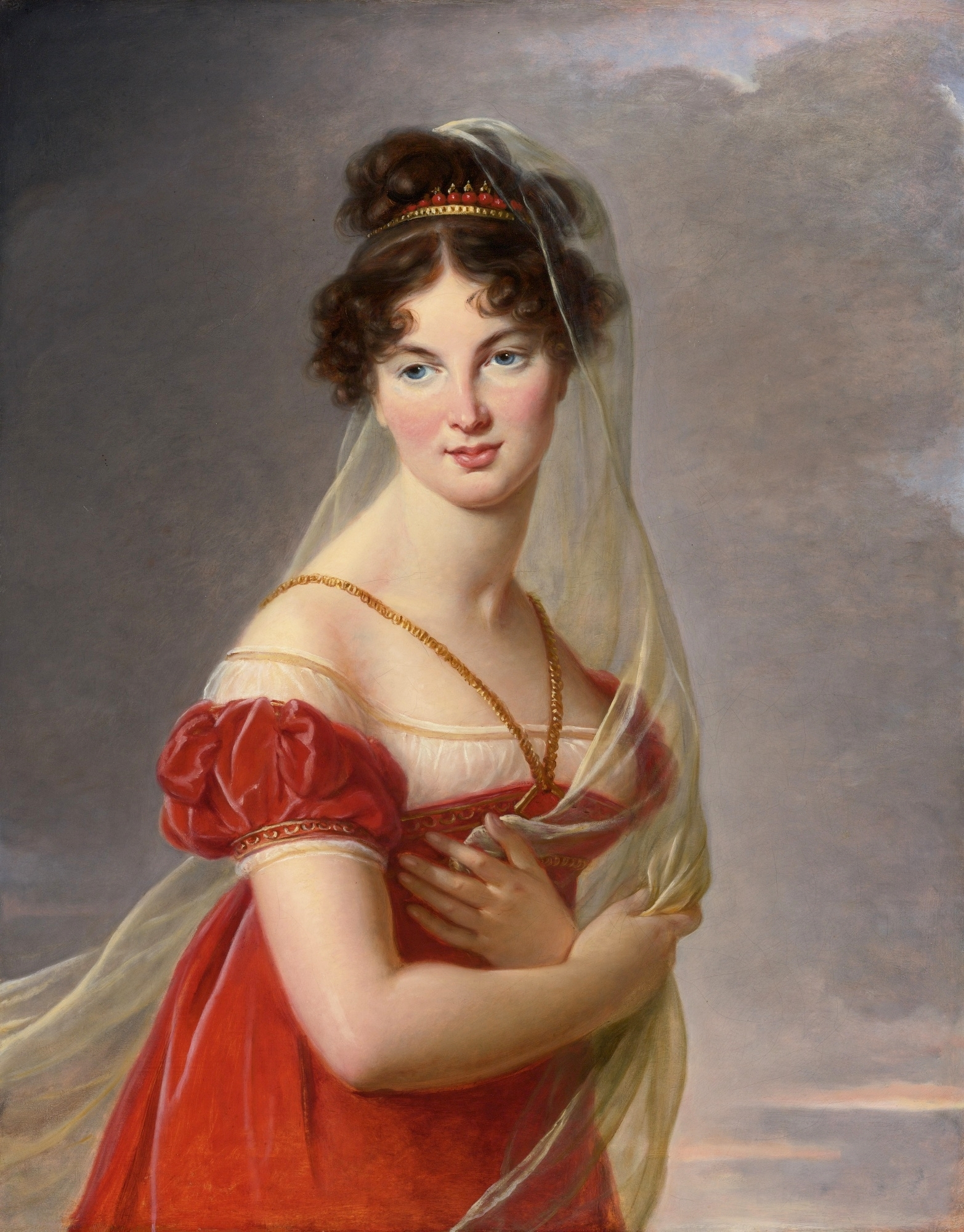 Aglae Angelique Gabrielle de Gramont (1787-1842), wife of General Alexander Lvovich Davydov (1773-1833)